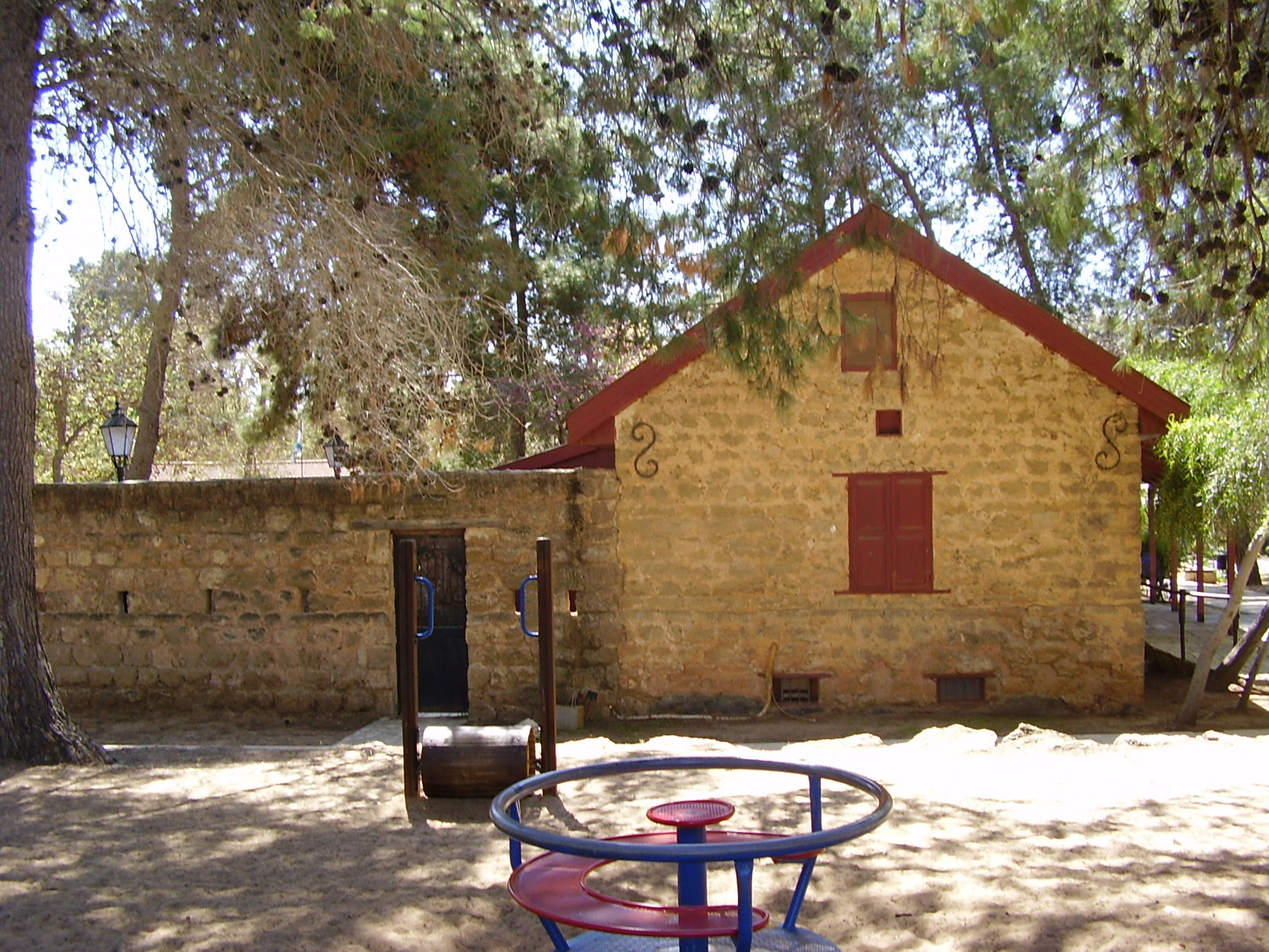 founders house in savyon